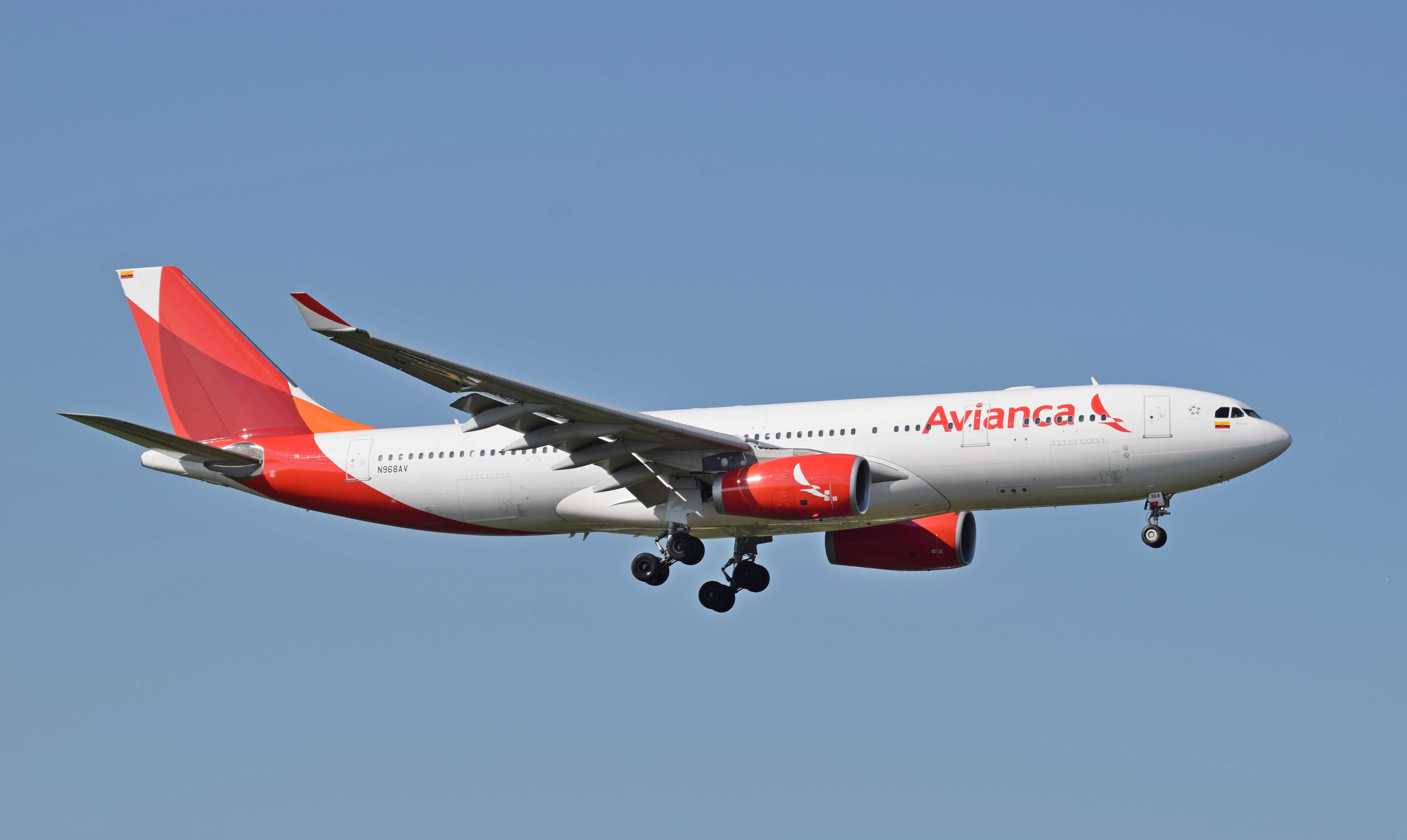 Avianca Airbus A330-200 (N986AV) arrives London Heathrow Airport, England. The livery seen here was introduced in 2013.